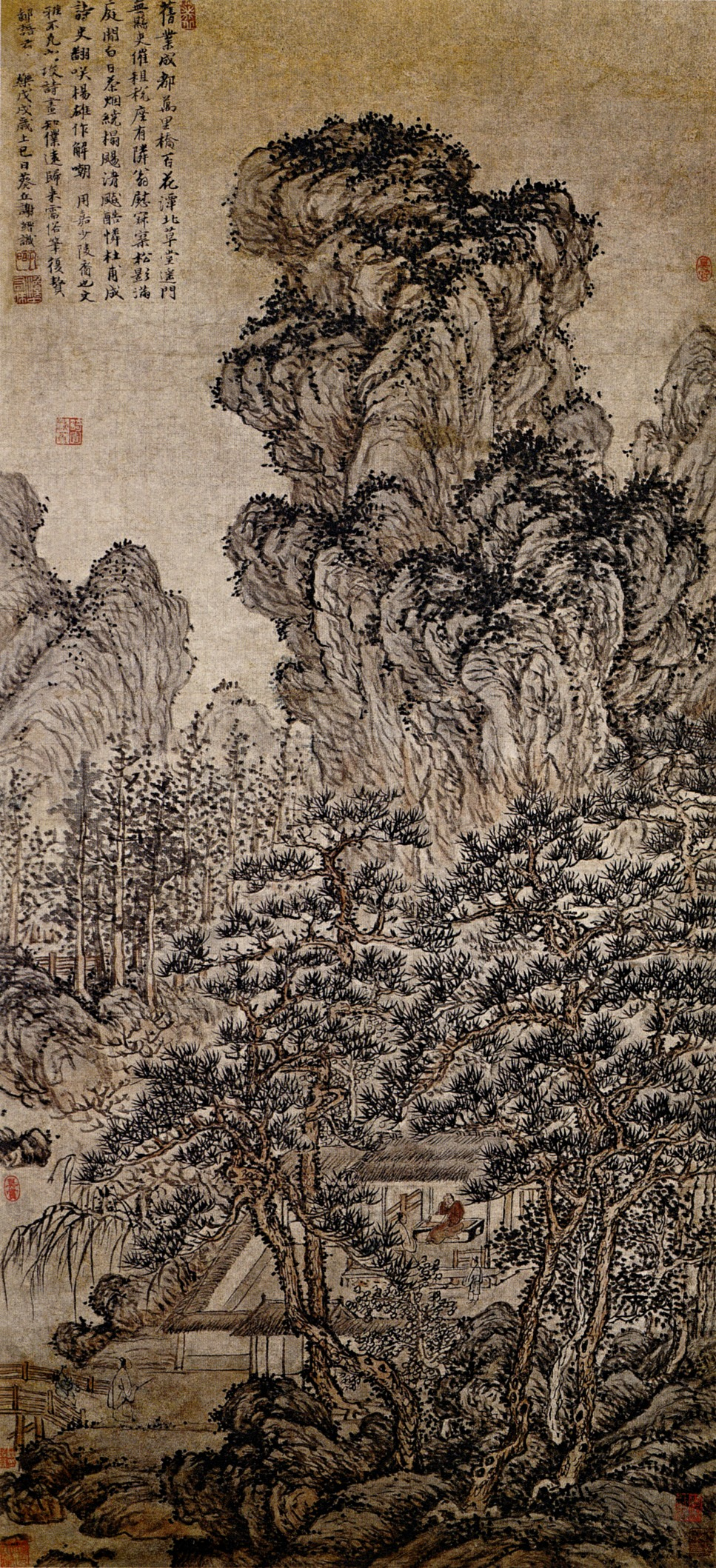 Grass House North of the Pool, hanging scroll, Color on paper, 109.9 x 50.1 cm. Located at the Zhejiang Provincial Museum. The source names this painting , but all other sources name it . This painting was made for Jin's contemporary Du Qiong.